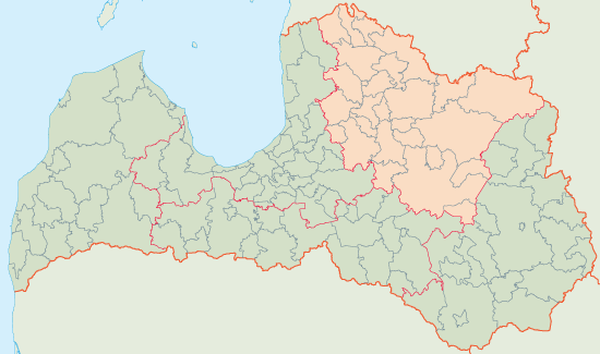 Location map of Vidzeme Region, Latvia.